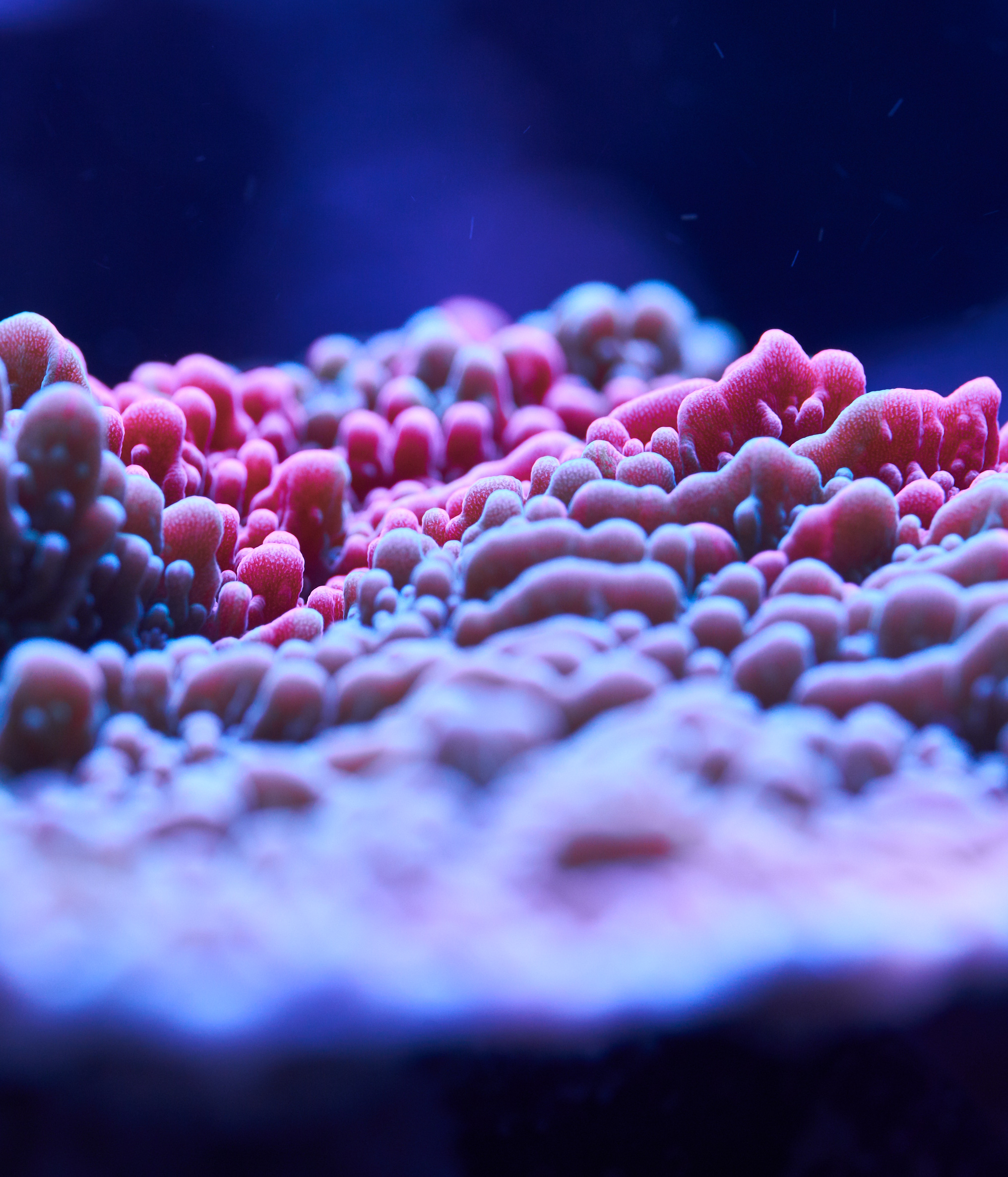 Montipora sp. are usually rough on their surface, with bumps and nodes. This photo shows the surface texture of a Montipora, probably in Montipora capricornis.